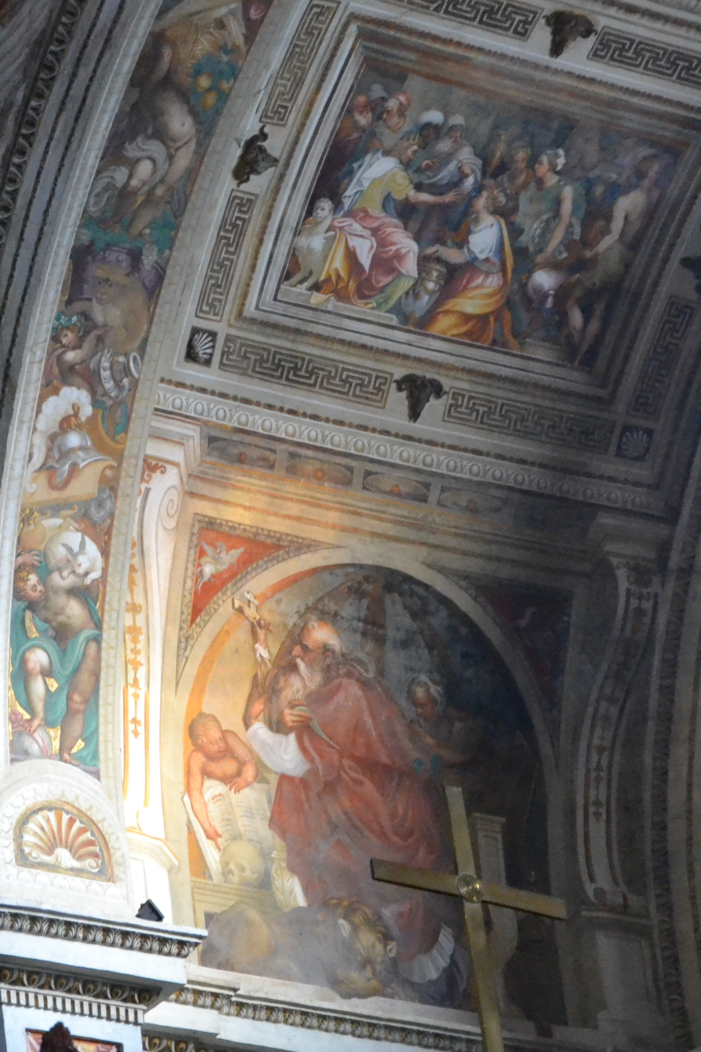 San Sigismondo (Cremona) - Frescos